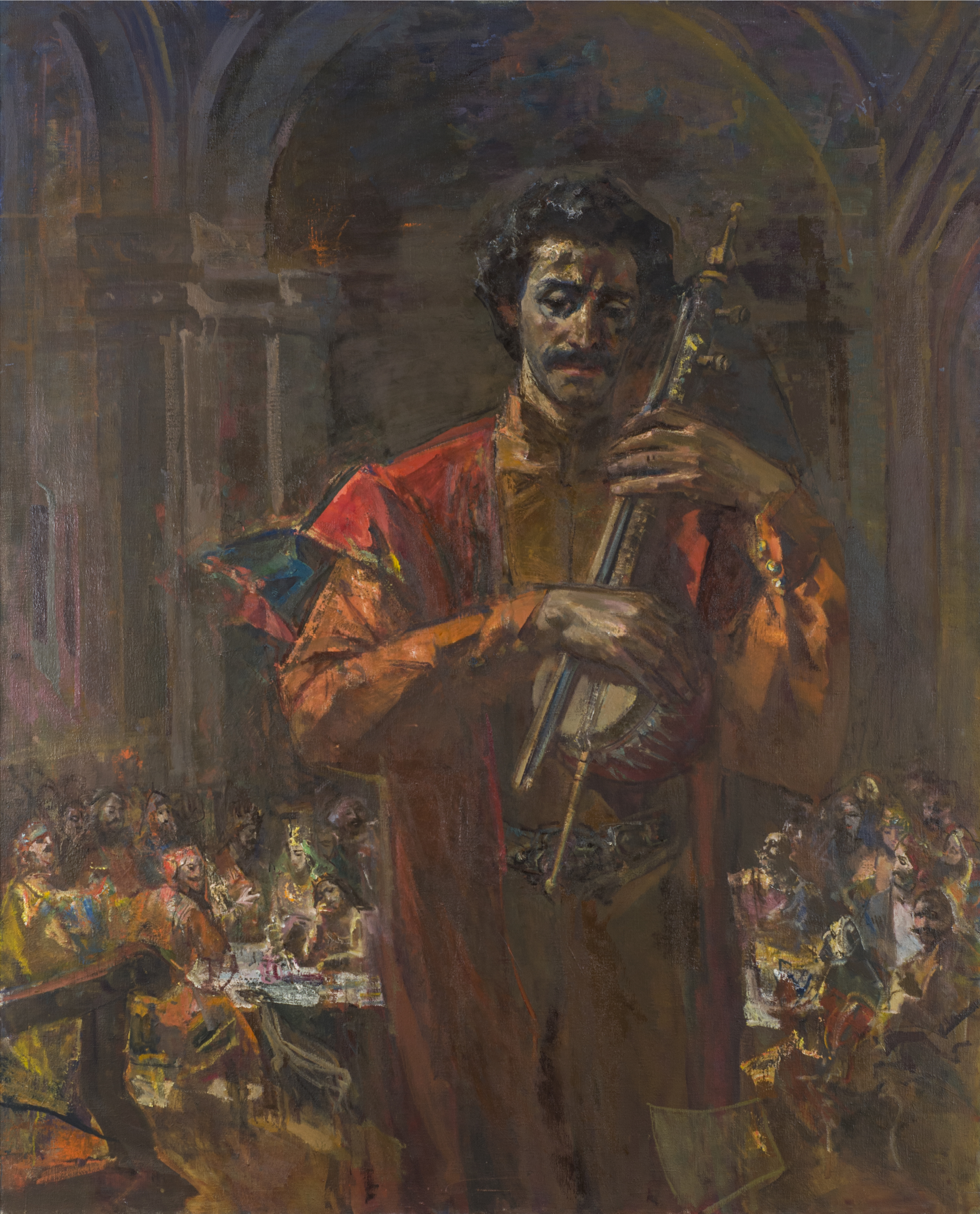 Sayat-Nova. 1964, Oil on Canvas, 190×154.5